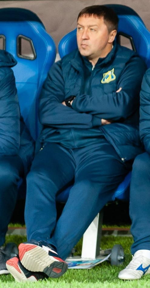 Mikhail Osinov working as a coach of FC Rostov in a game against FC Lokomotiv Moscow.